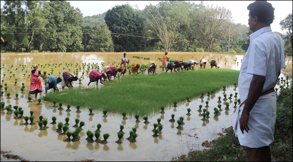 Agari Neji program